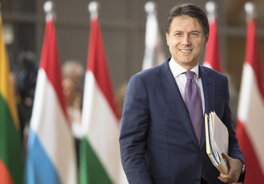 Giuseppe Conte at the European Council